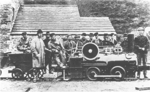 Photograph of the Lewin locomotive used at the Cornish Hush Mine, Howden Burn. The photograph came from Mr H.L. Beadle of Richmond via Mr Russell Wear. Although the right hand side is shown, the engine would appear to be the one that appeared in "The Engineer" for 1st January 1875.